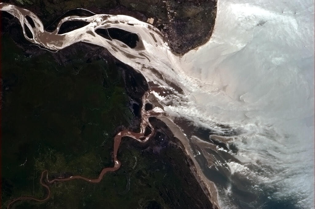 "An African river perpetually vomiting into the Indian Ocean." Caption by astronaut Chris Hadfield on board the International Space Station. Beira, Mozambique stands at the mouth of Rio Púnguè.